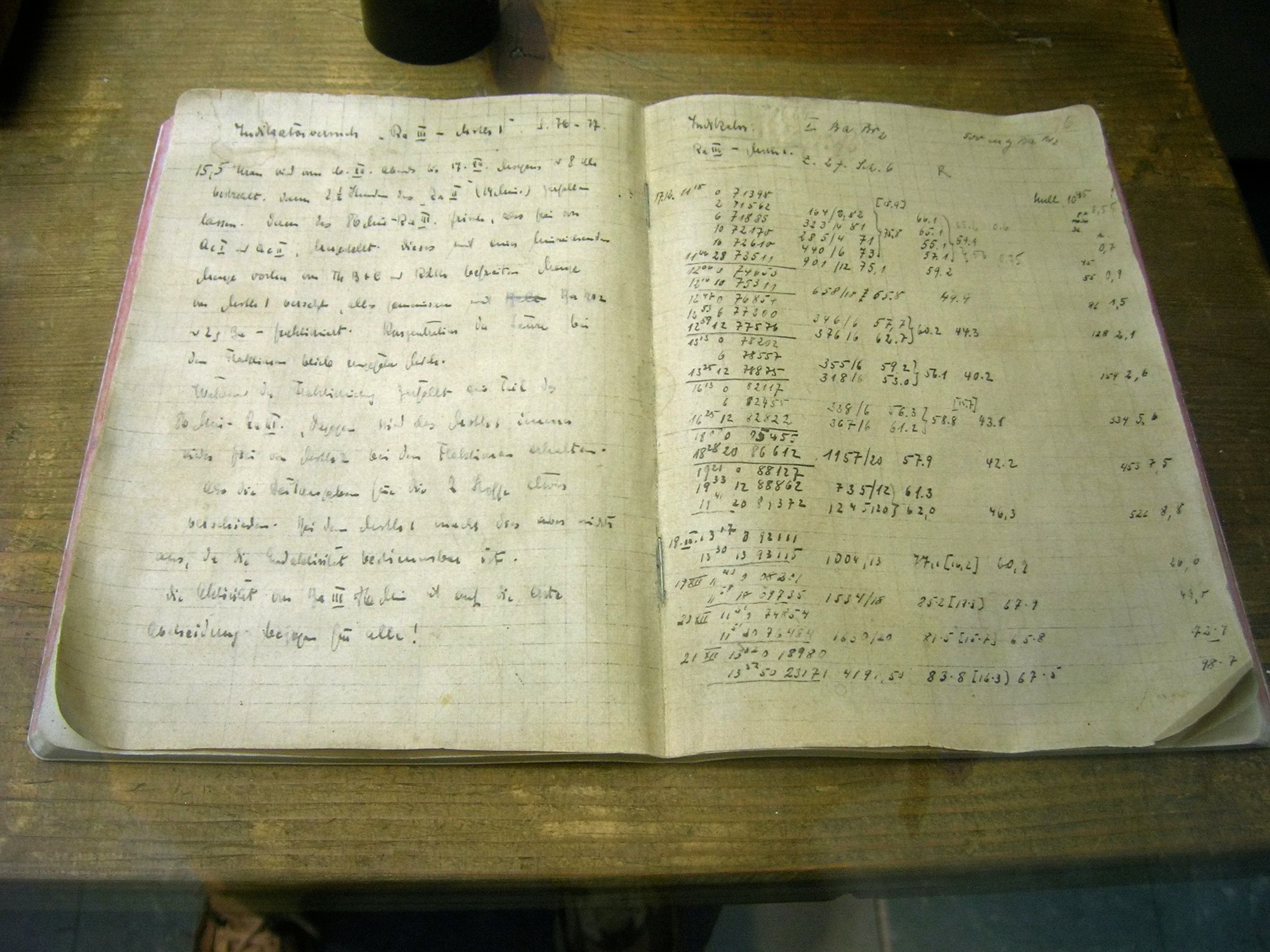 Otto Hahn's notebook from exhibit of the Experimental Apparatus with which the team of Otto Hahn, Lise Meitner and Fritz Strassmann discovered Nuclear Fission in 1938. The arrangement was originally in 3 separate rooms: irradiation, measurement, and chemistry at the Kaiser Wilhelm Institute for Chemistry in Berlin. i061706 105